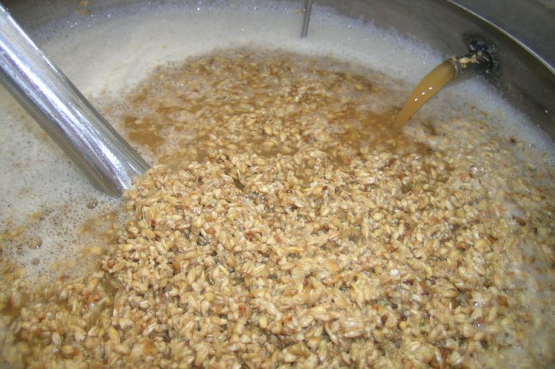 Brewing: A view of the mash